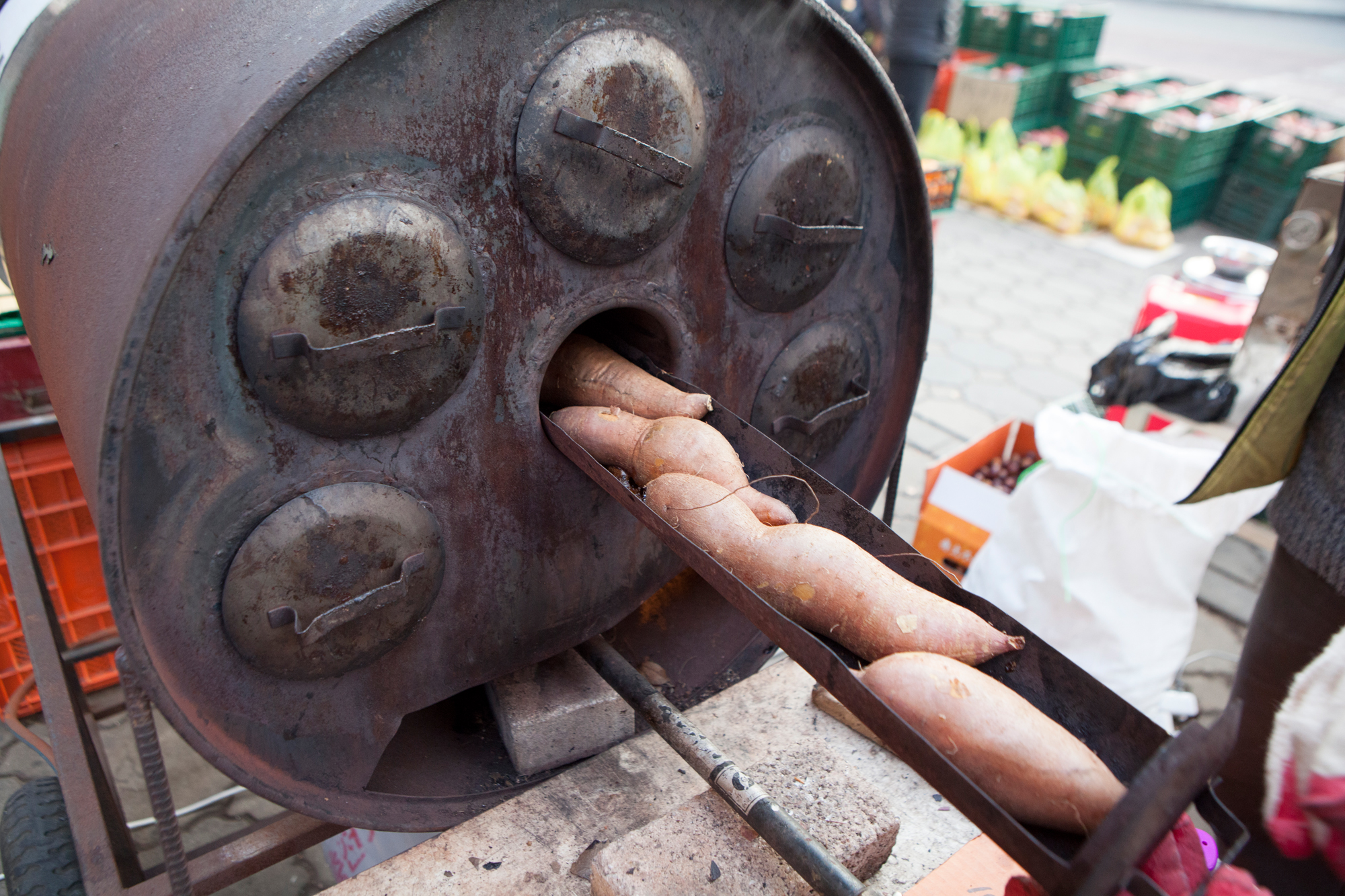 Gungoguma drum can (sweet potato roaster)